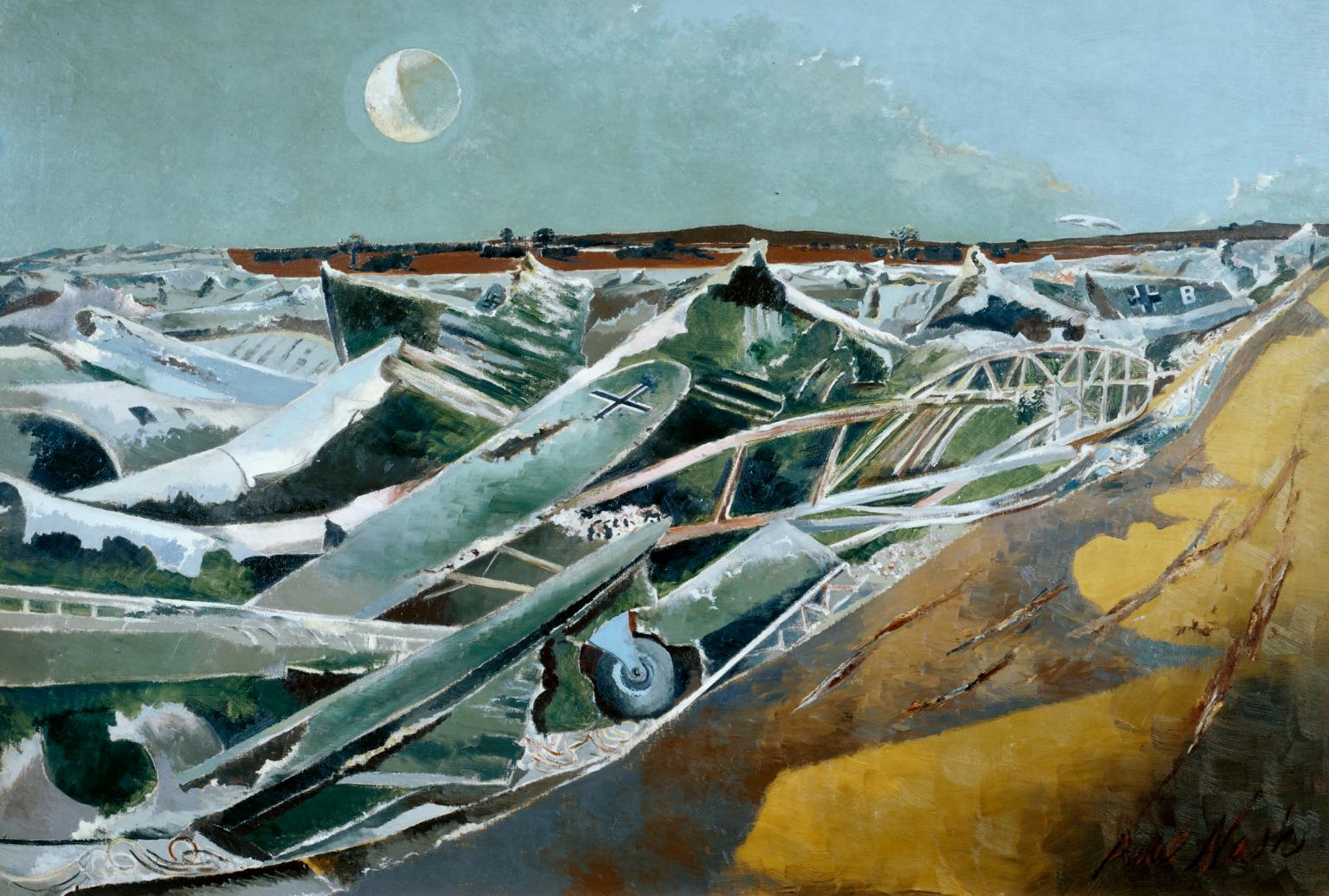 Totes Meer (Dead Sea) 1940-1 Paul Nash 1889-1946 Presented by the War Artists Advisory Committee 1946